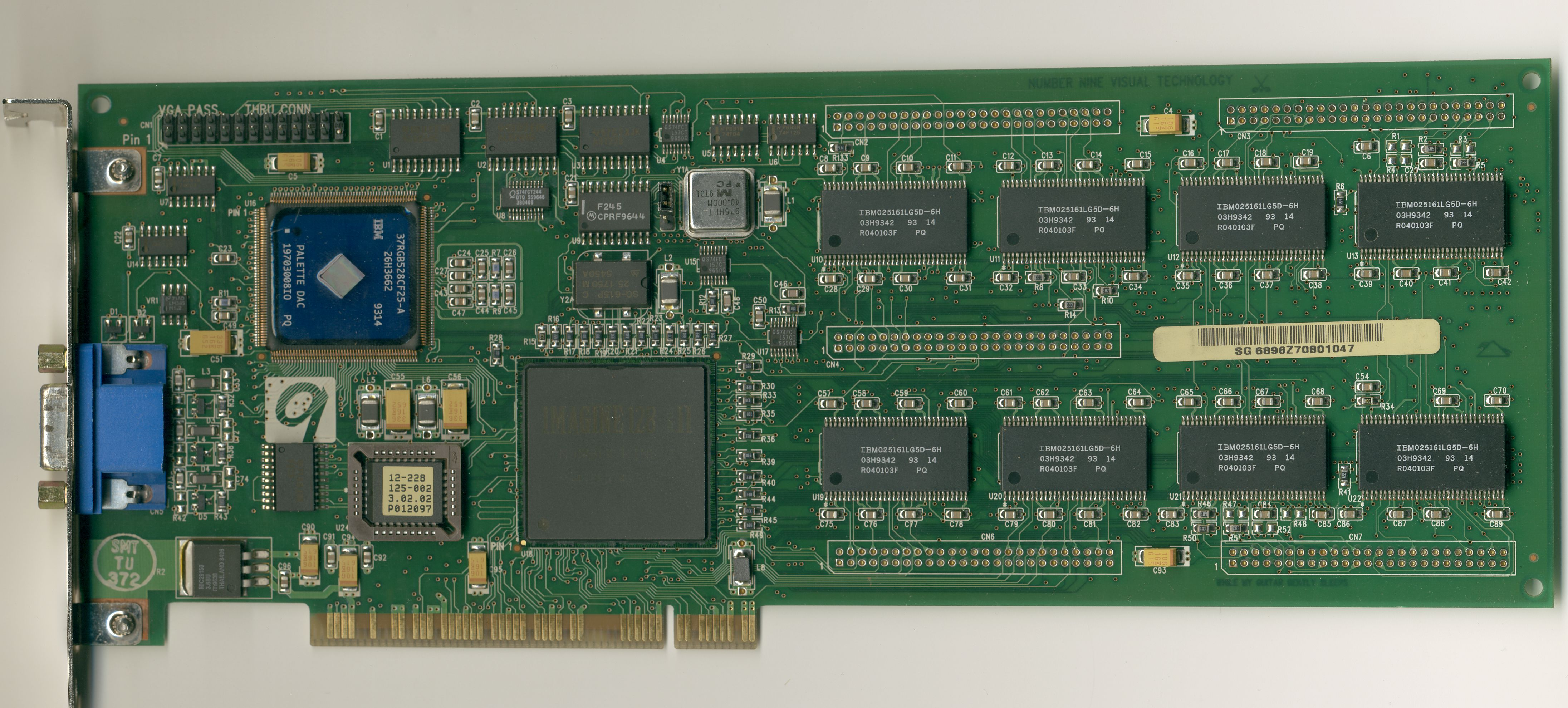 Description : NumberNine Imagine128 Series2 H-VRAM 8MB PCI Photographer/Painter : mac3216